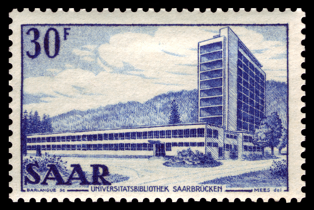 stamps series “Ansichten aus dem Saarland” (“Saar V”)